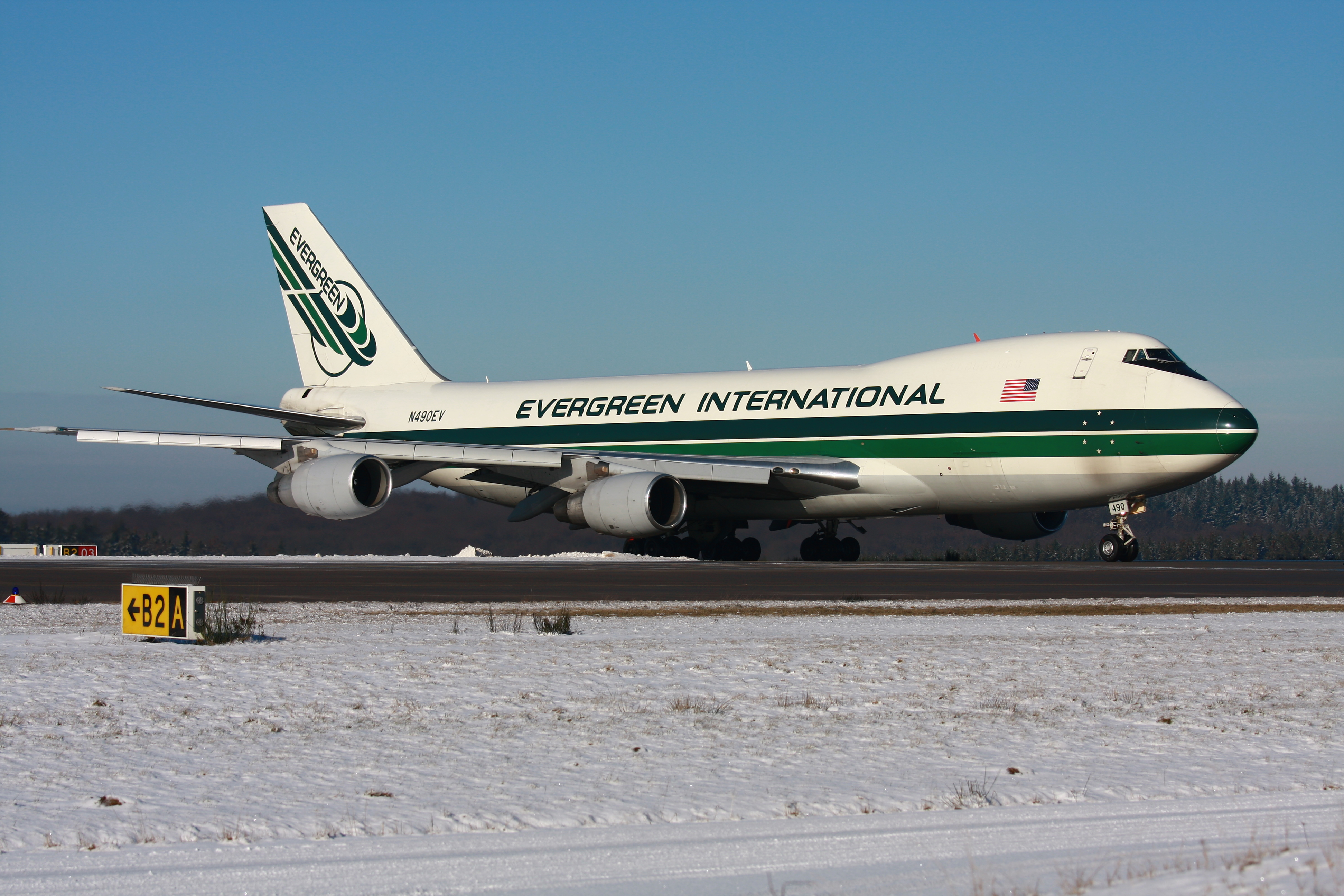 A Boeing 747-200F of Evergreen International Airlines after landing at the Airport Hahn